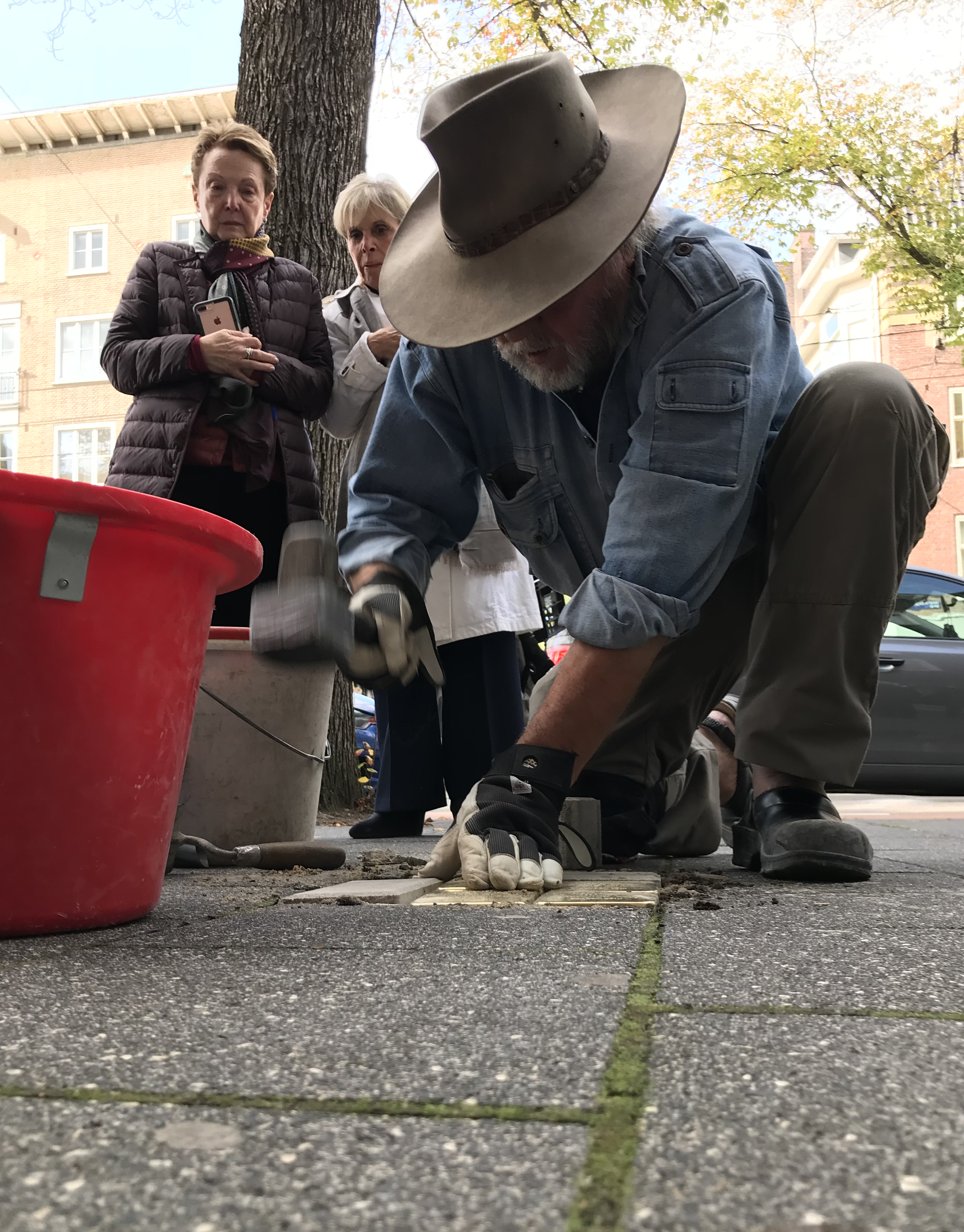 Gunter Demnig, a German environmental artist installs since 1996 in almost every country in Europe small, 10x10cm. stones with a brass plate in which he die-cuts information about the fate of a Holocaust victim. One stone, one person. Each stone is installed in front of the last address of the victim he/she chose freely. Until October 2018 70.000 such stones were almost entirely installed by Mr. Demnig himself. Stolperstein installation Beethovenstraat 55